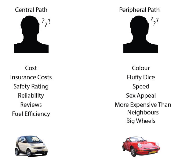 Diagram to help illustrate the two cognitive routes from ELM theory